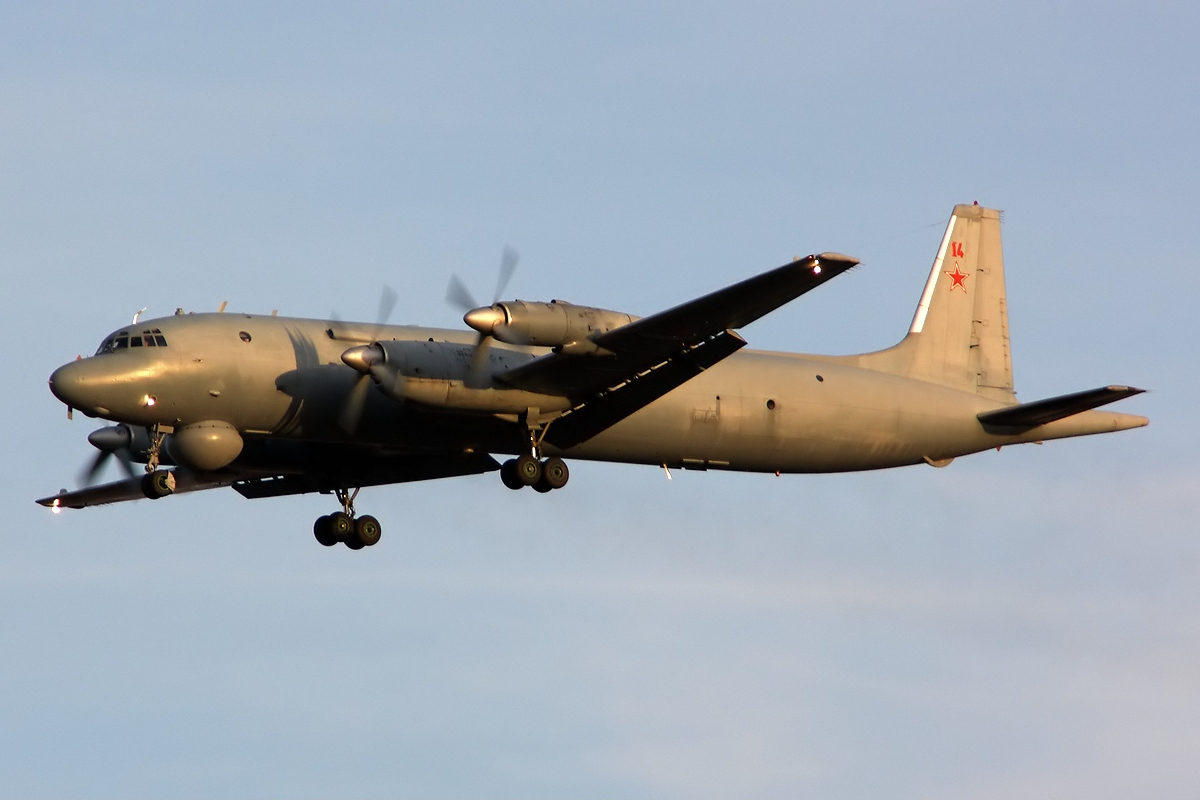 Russian Navy Ilyushin Il-38